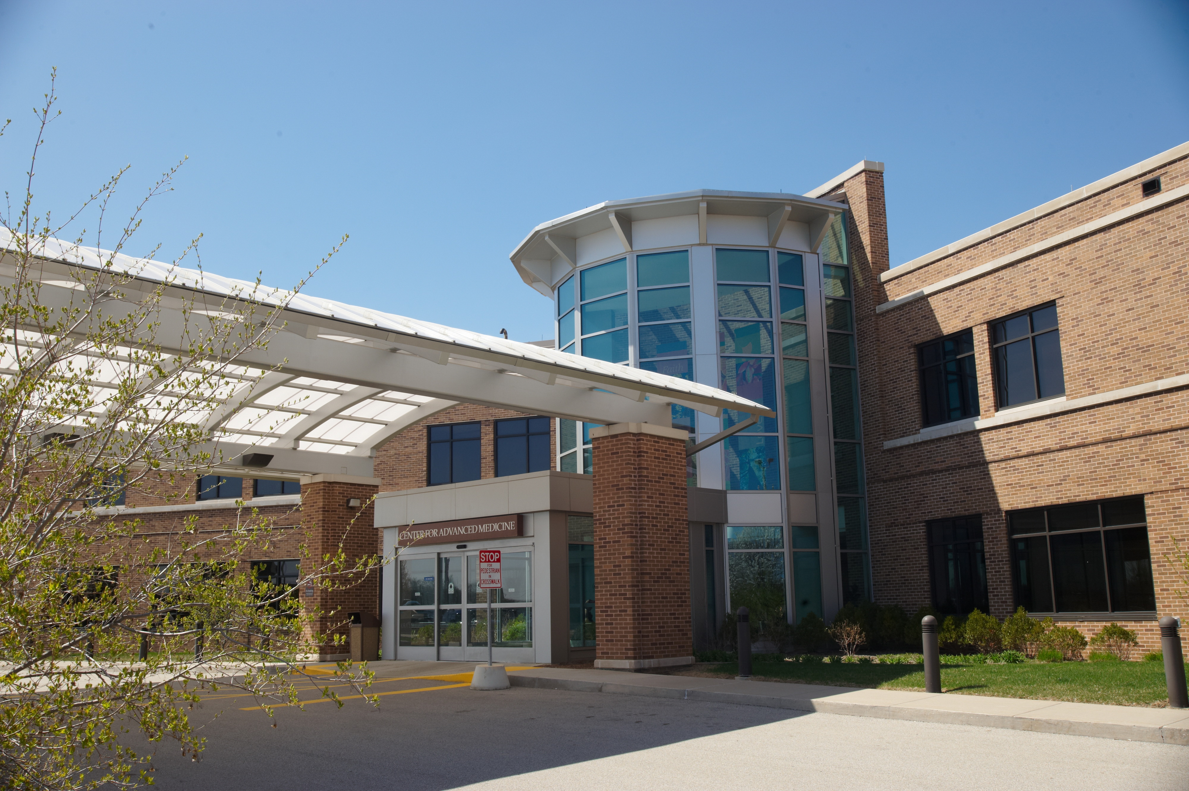 OSF St. Joseph Medical Center, new addition view. Personal photo